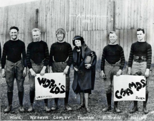 Rip King, Al Nesser, Charlie Copley, a woman identified only as Miss Thomas, Elgie Tobin and Russ Bailey celebrating the Akron Pros' 1920 championship season.